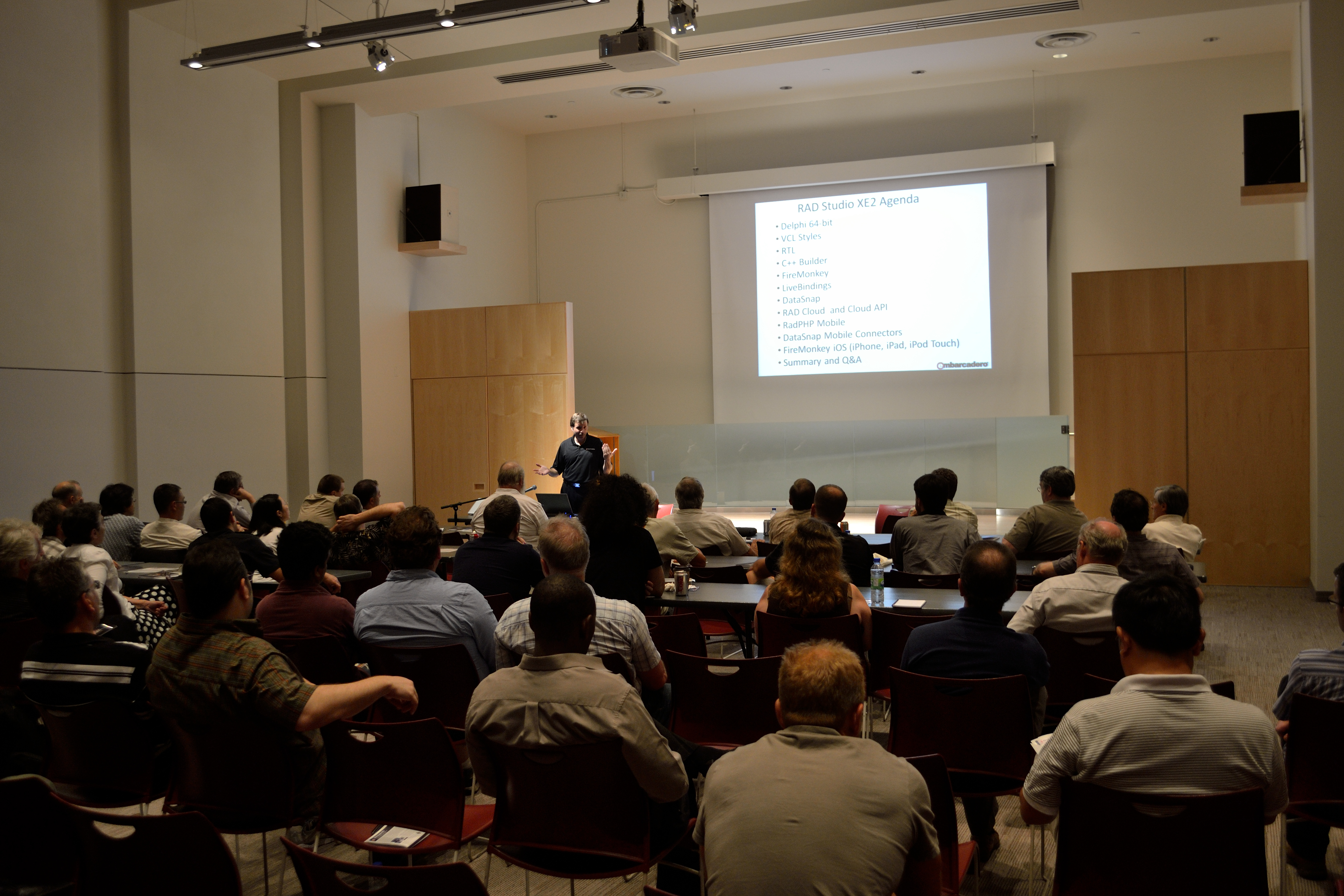 RAD Studio XE2 World Tour - North York Central Library